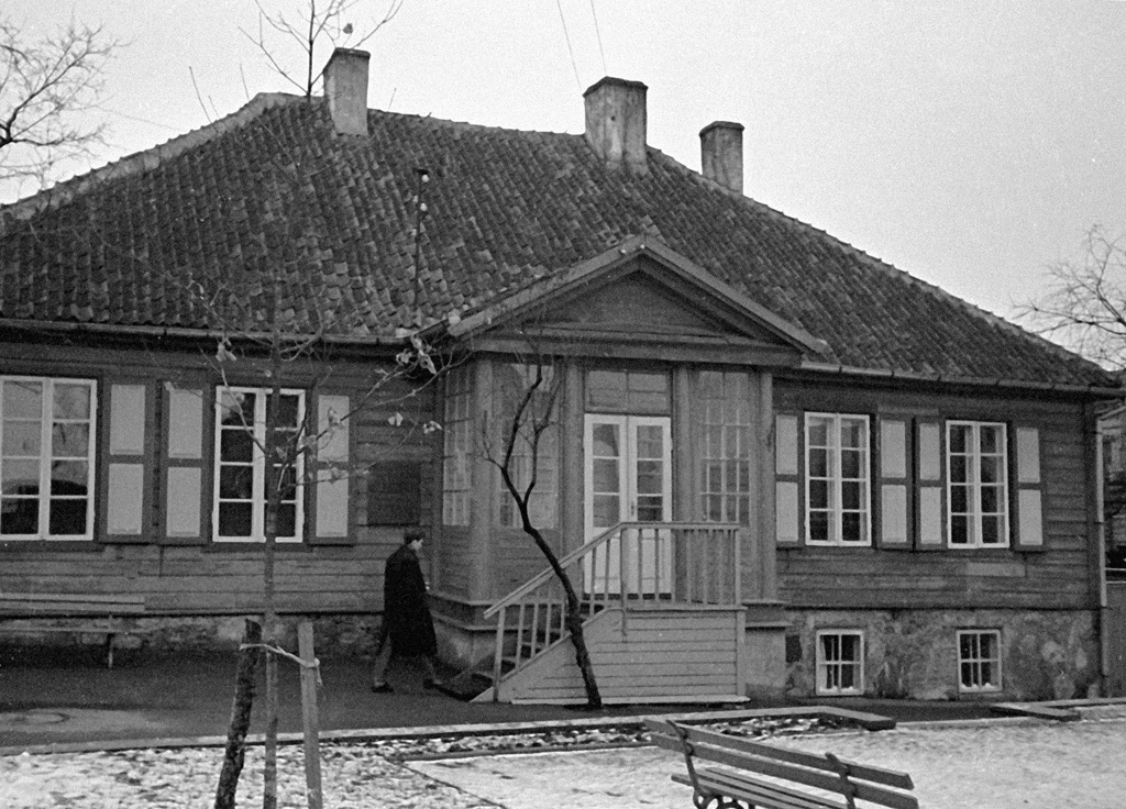 “Dzerzhinsky House-Museum”. The house-museum of Felix Dzerzhinsky in Vilnius.